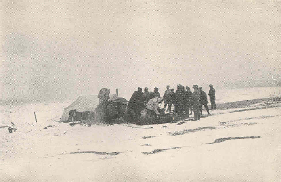 Rescue of the Party at Waring Point, Wrangell Island : 'The rescue, both here and at Rodgers Harbor, was effected just in time' Subject: Wrangell Island (Wrangell-Petersburg Census Area, Alaska), Rescues, Shipwreck victims Geographic Subject: United States--Alaska--Wrangell Island Tag: People, Polar